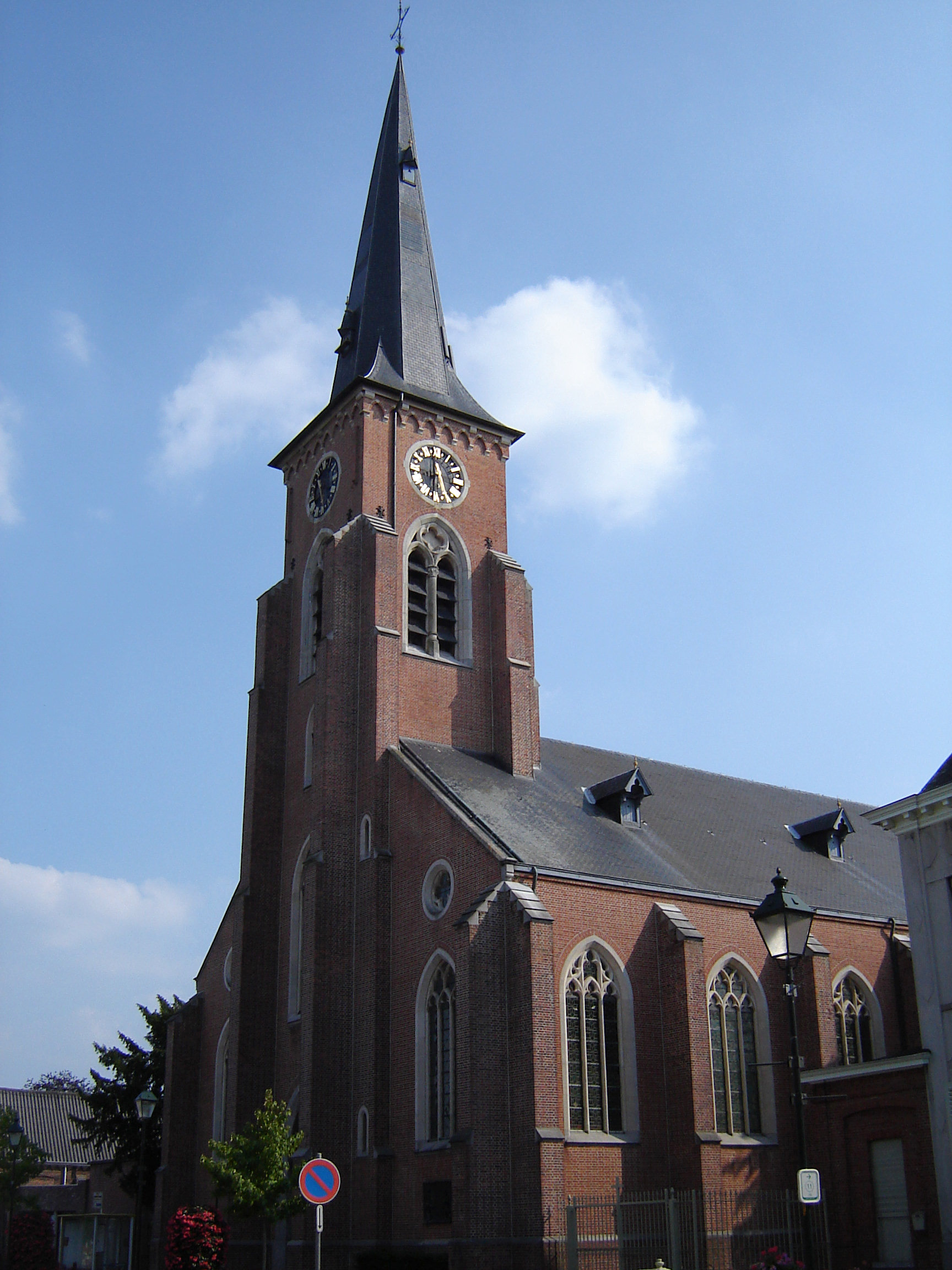 Church of Saint Gertrude in Wichelen. Wichelen, East Flanders, Belgium